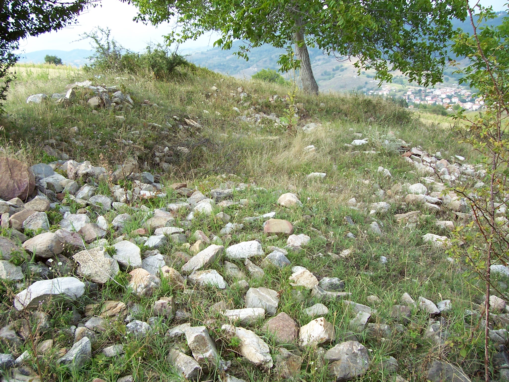 Ruins of Thracian settlement near the village of Kochan.